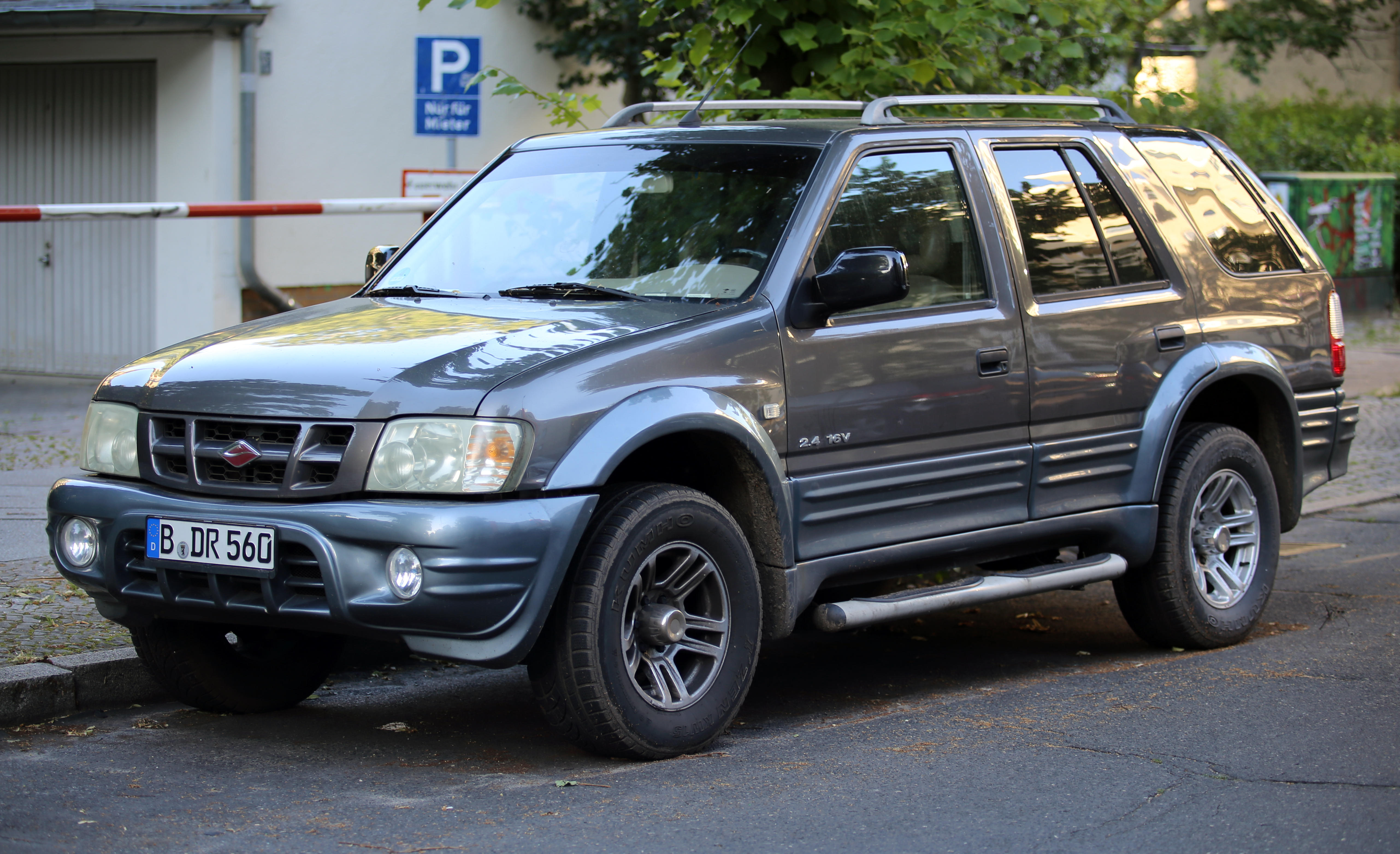 (Jiangling) Landwind X6 2.4 16V.